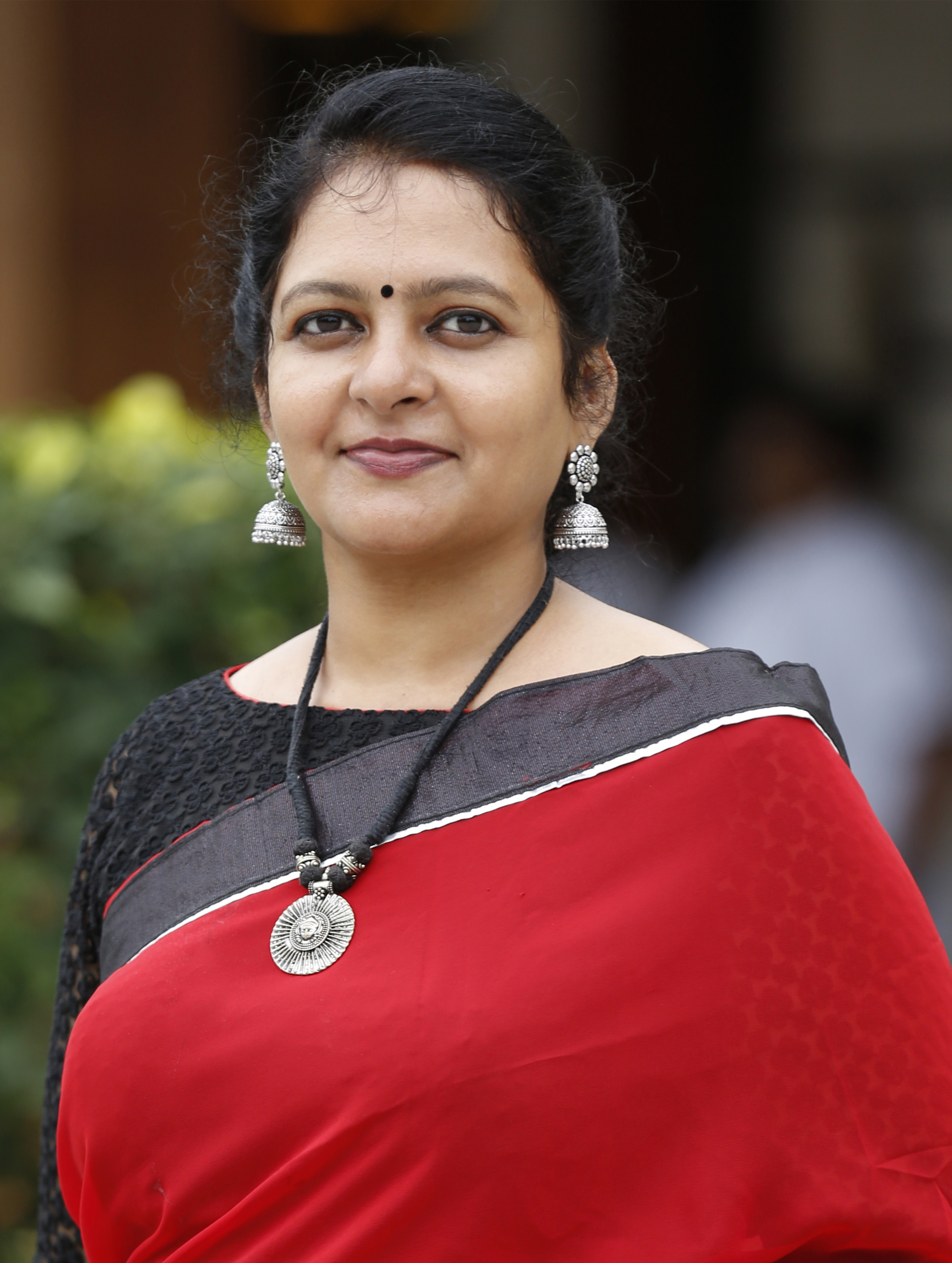 Neelima Tirumalasetti (Telugu: నీలిమ)(Born 31 December 1975) is an Indian film and television producer She is one of the very few ladies who produce films in the Telugu industry.